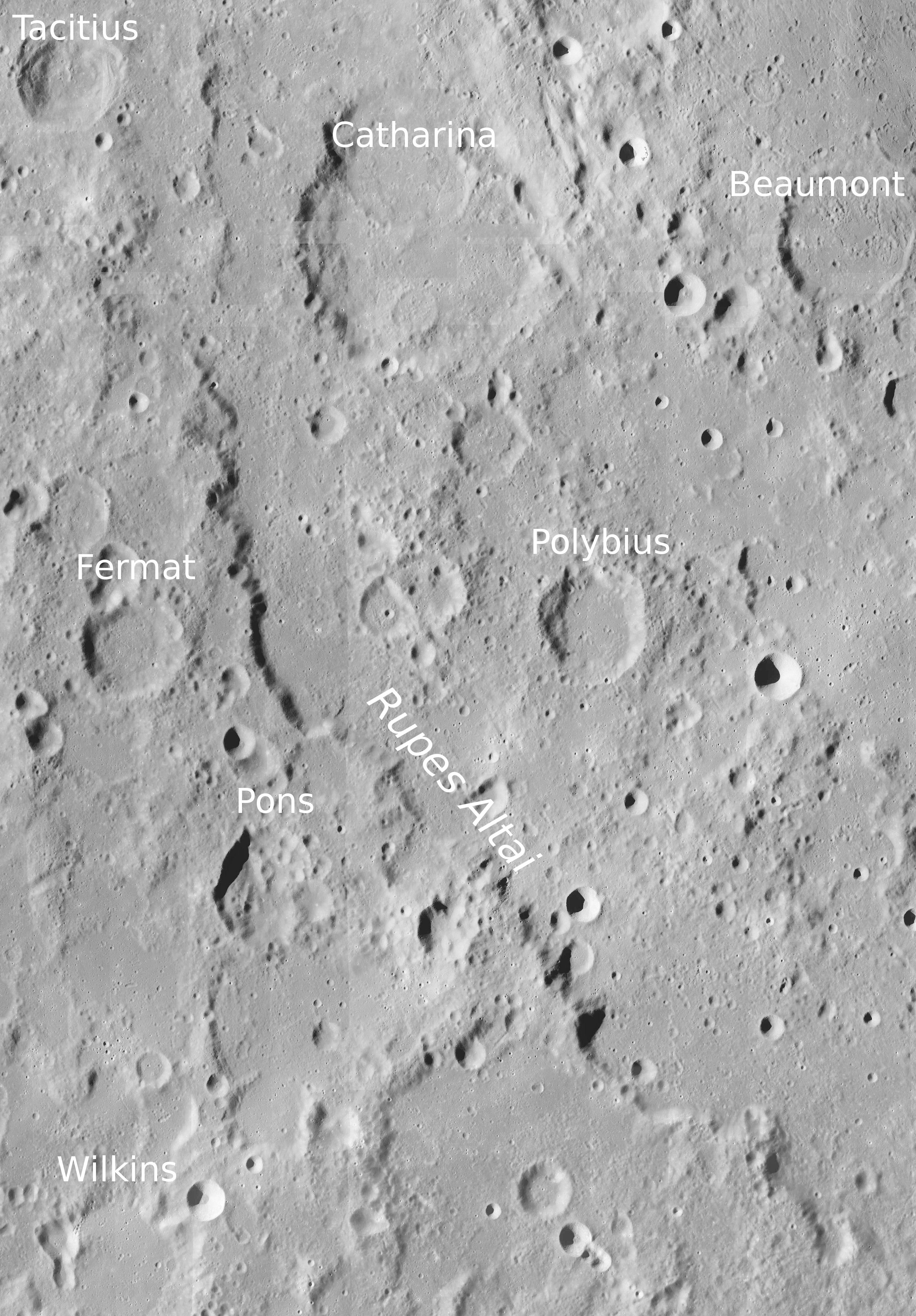 Rupes Altai with craters Catharina, Tacitus, Fermat, Polybius ans Pons (detail of LRO - WAC global moon mosaic; Mercator projection)